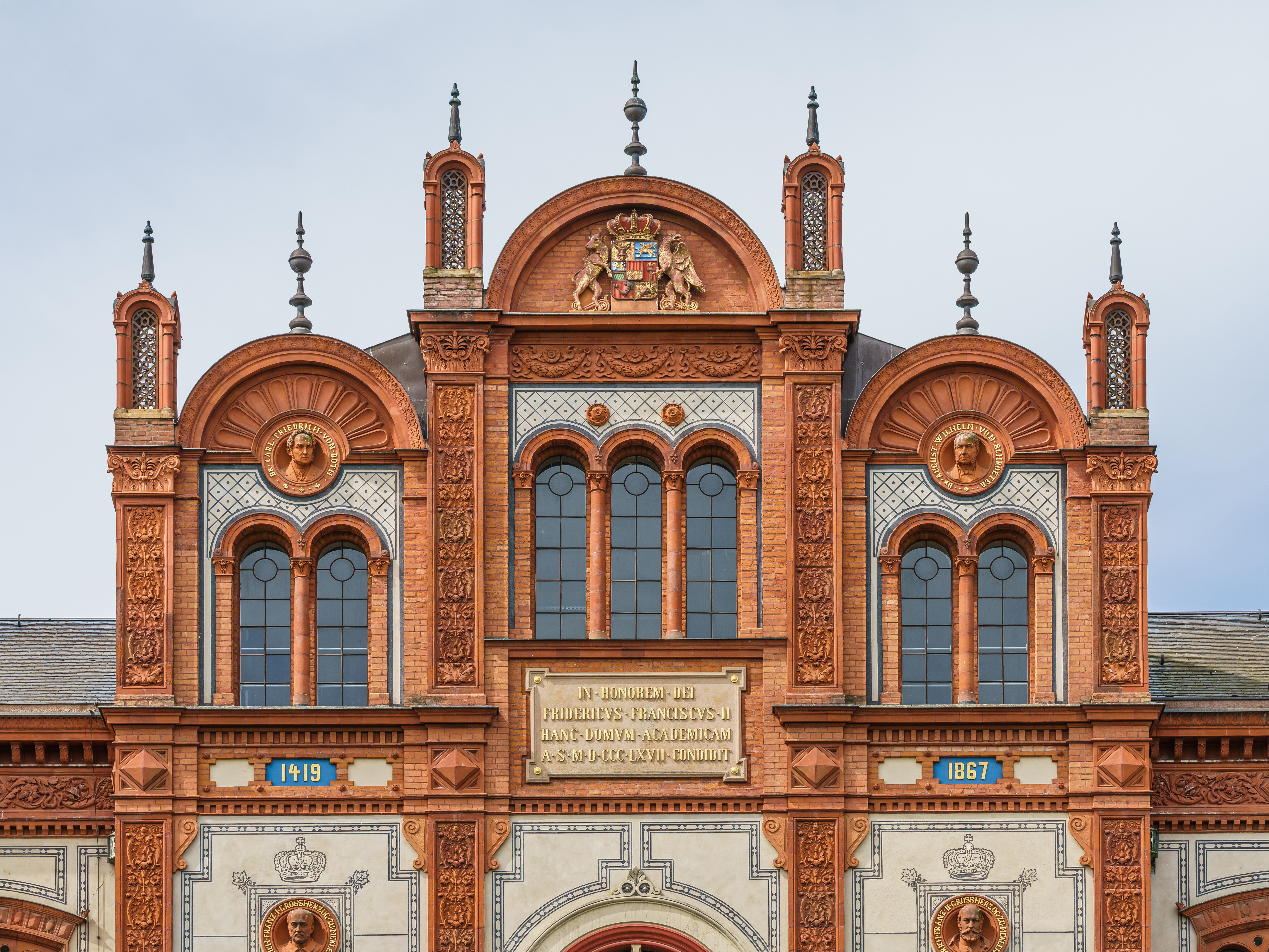 Main building of the university in Rostock, Germany